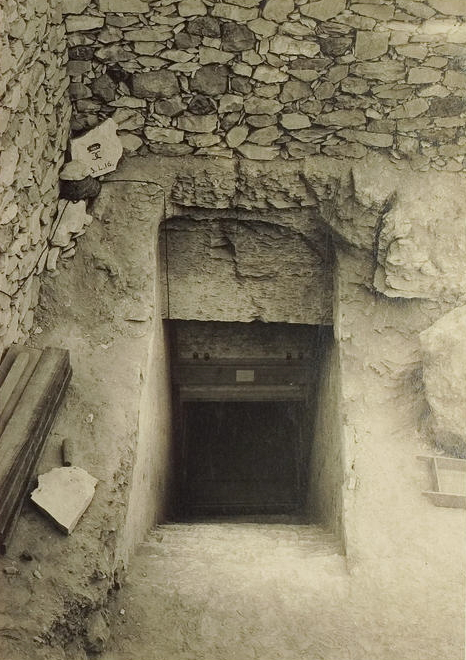 Harry Burton: Tutankhamun tomb photographs: a photographic record in 5 albums containing 490 original photographic prints ; representing the excavations of the tomb of Tutankhamun and its contents. Vol. 2